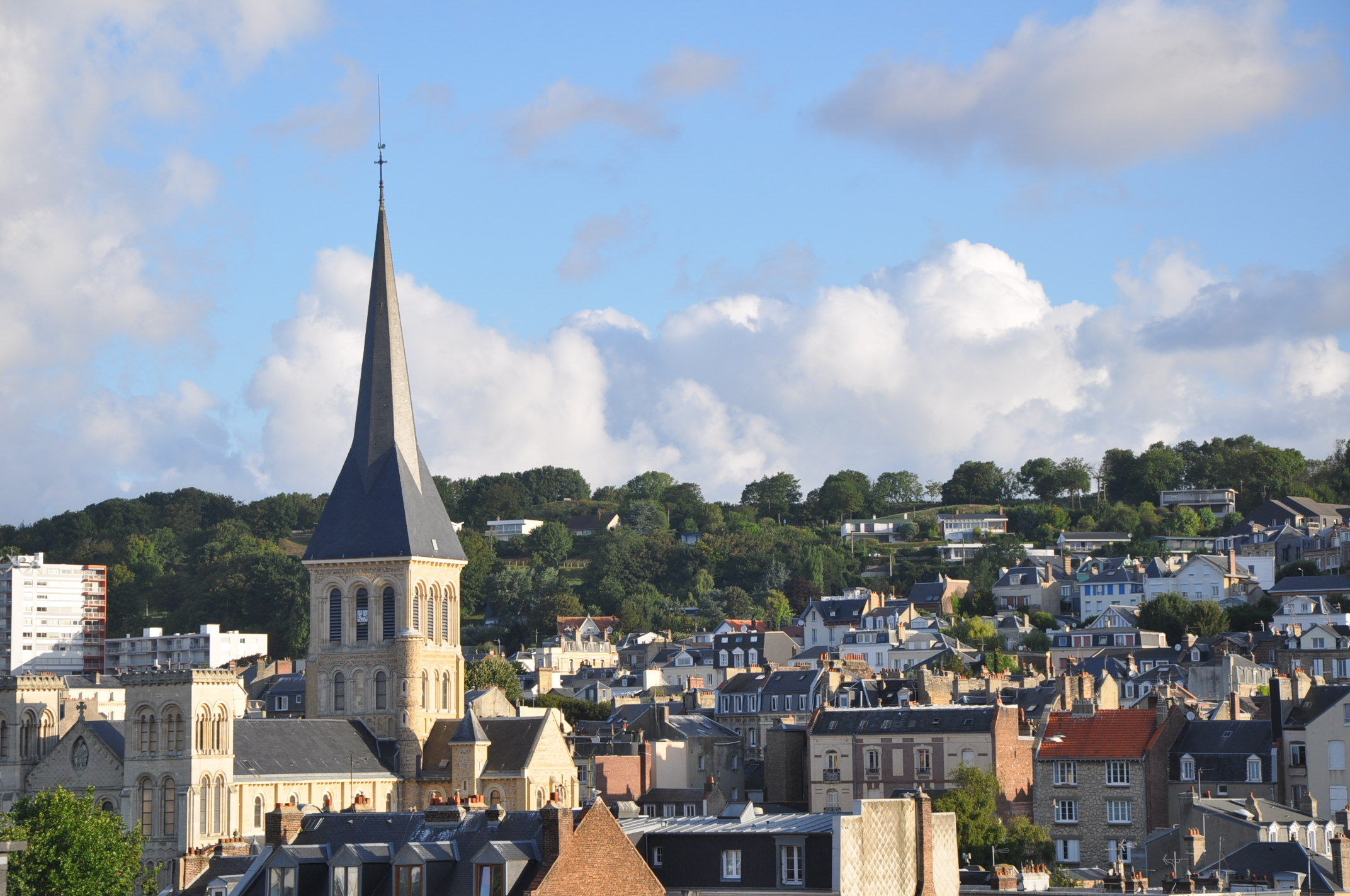 Church Saint-Vincent in Le Havre (Normandy, France)